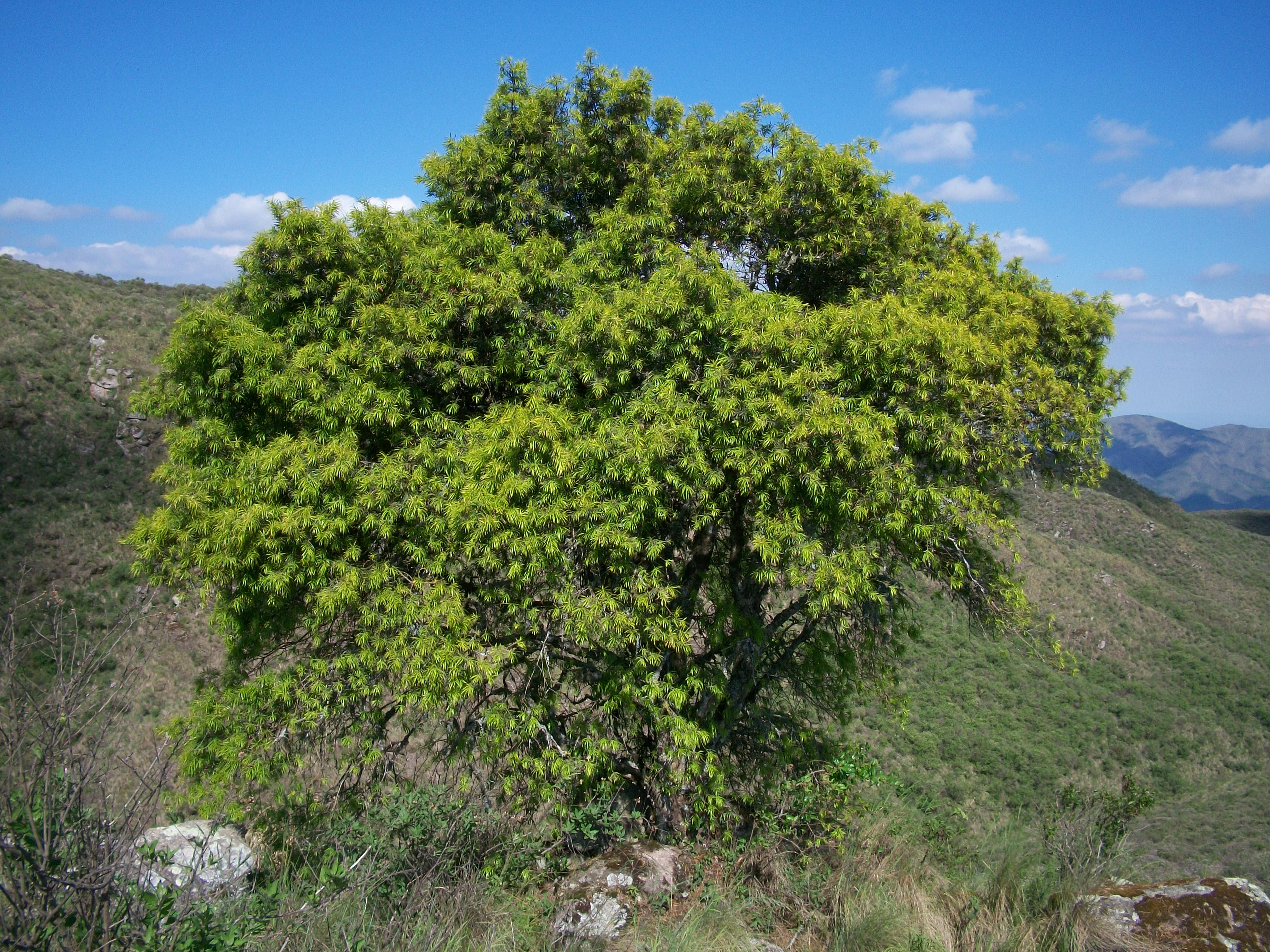 A specimen of Podocarpus parlatorei at 1750 meters above sea level on the Sierras de Los Pinos, Balcozna, Catamarca, Argentina.